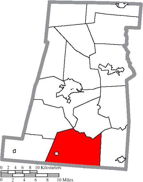 Map of the municipal and township boundaries of Madison County, Ohio, United States, as of the 2000 census, with the location of Range Township highlighted. Township borders are shown only in unincorporated areas in order to differentiate incorporated and unincorporated areas more clearly.